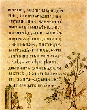 A page from the Kiev Psalter of 1397, preserved in the Russian National Library.